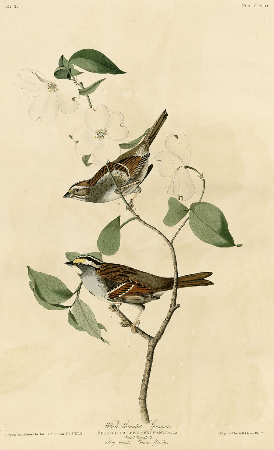 Plate 8 of Birds of America by John James Audubon depicting White throated Sparrow.